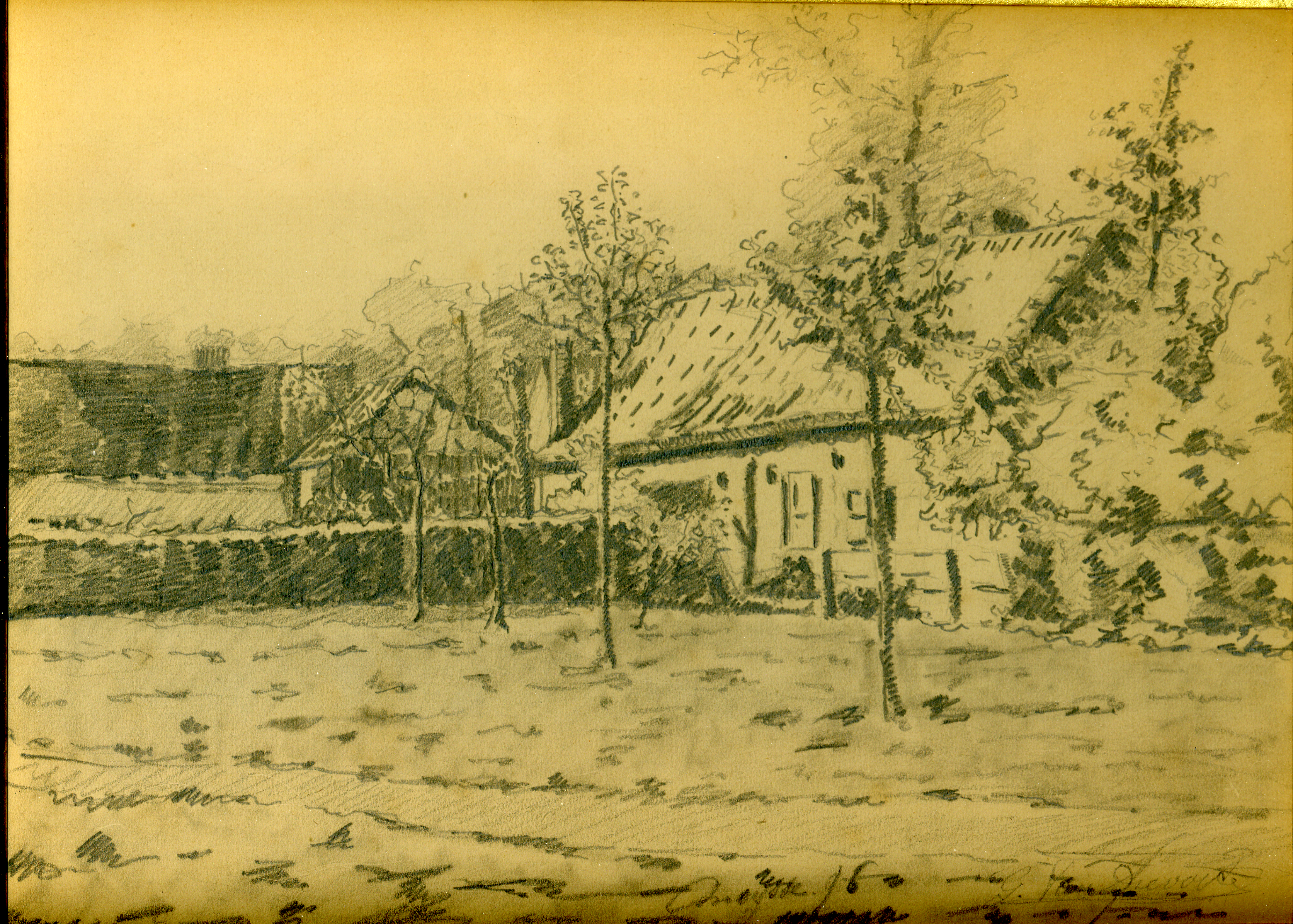 A little farm in Meise (Brabant, Belgium), drawing by Gabriel van Dievoet (1875-1934)